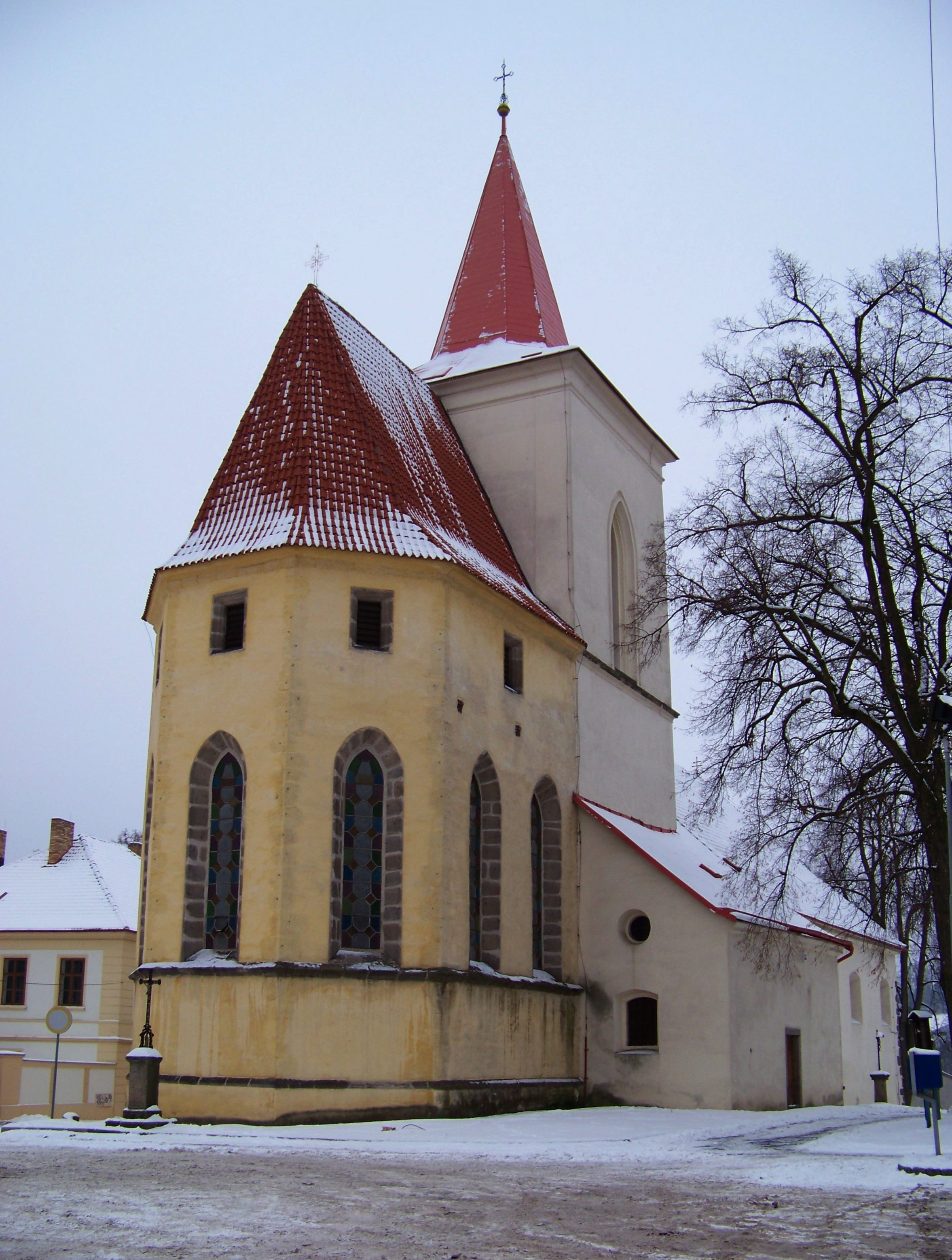 Jílové u Prahy, Prague-West District, Central Bohemian Region, Czech Republic. Masarykovo náměstí, Saint Adalbert Church.